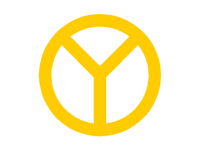 Mark of 12.Panzer Division